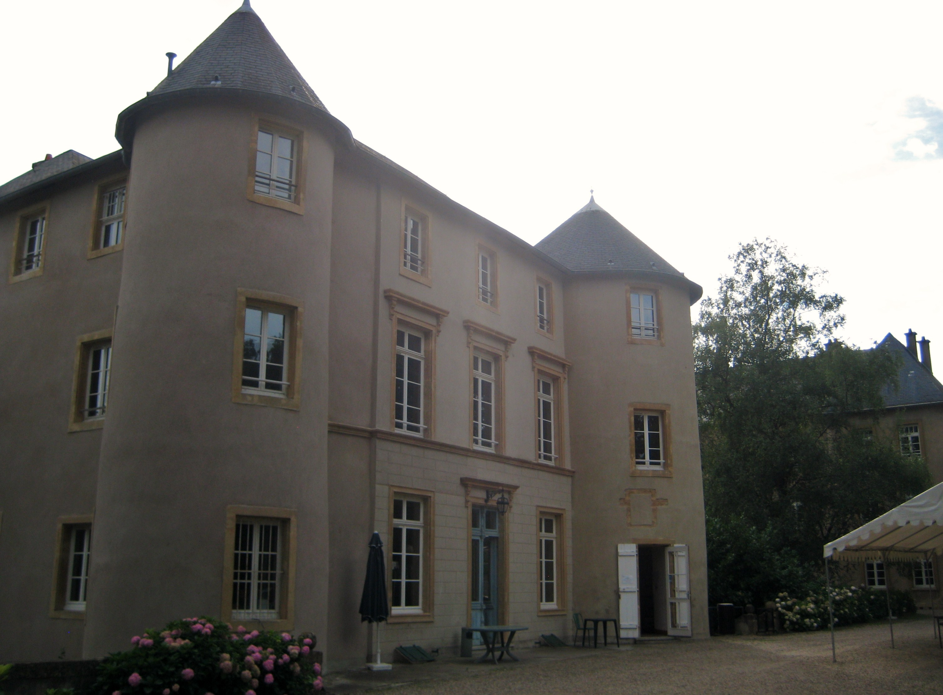 Description chateau ermitage St Jean Moulins Metz Date6 September 2011Sourcemon appareil photoAuthorAimelaimePermission(Reusing this file) chateau ermitage St Jean Moulins Metz